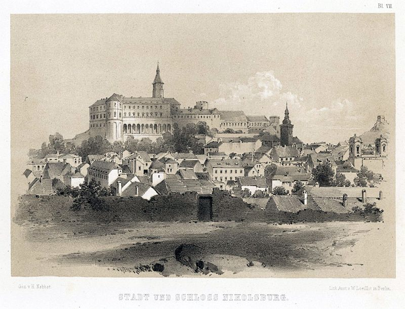 Lithography of Mikulov by H. Nabbath, 1868.